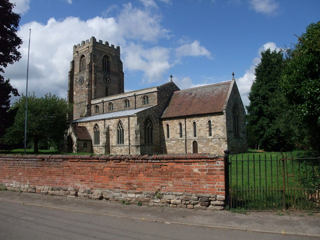 Church of St Peter and St Paul, Shelford Some history